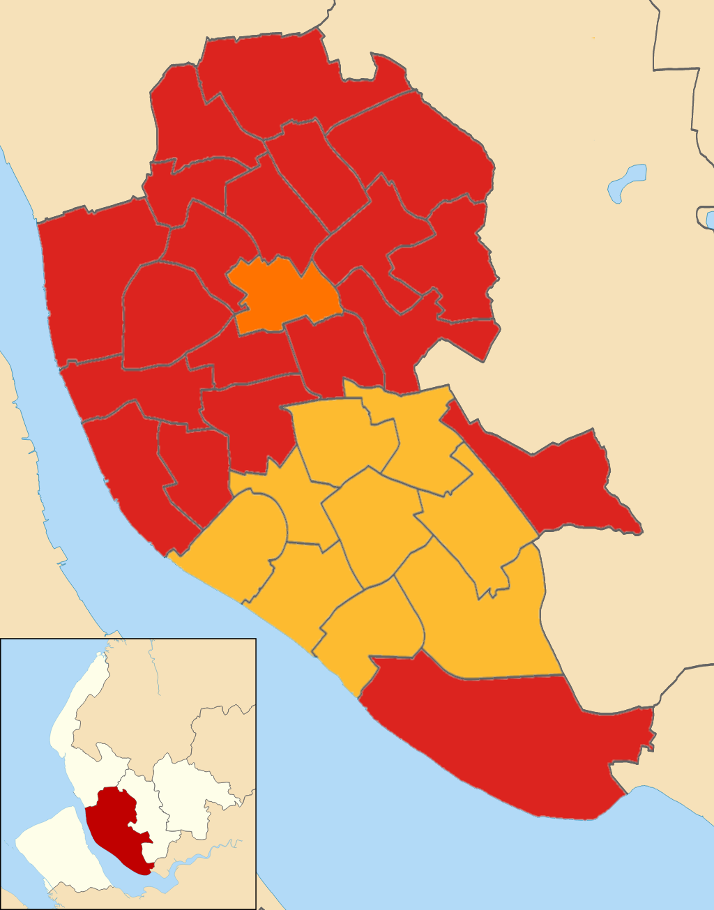 Results of the 2010 local elections in Liverpool Colours: Labour Liberal Democrat Liberal Party